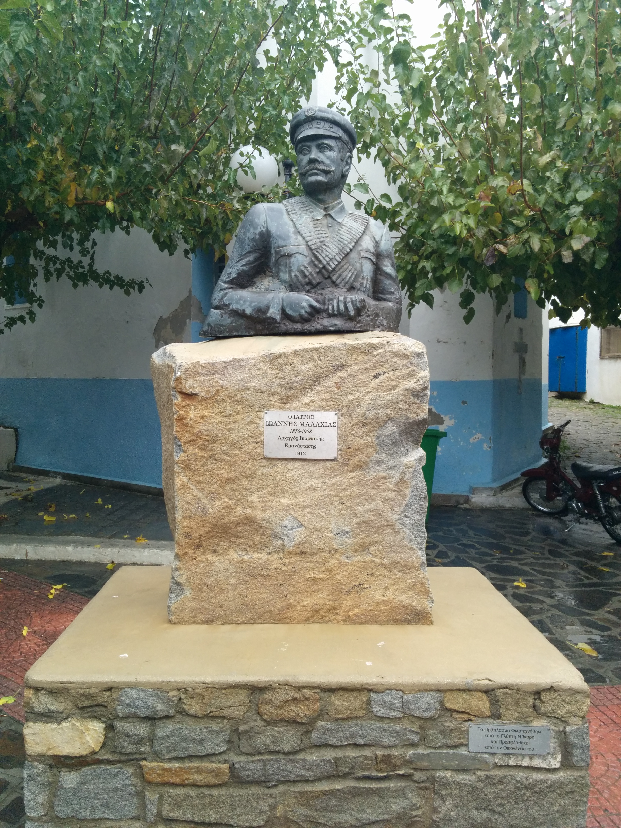 Dr Ioannis Malahias(1876-1958) was the leader of the Ikarian revolution of 1912 against the Ottomans